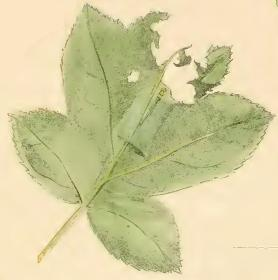 Stainton’s Natural History of the Tineina (1855–1873): Carcina quercana